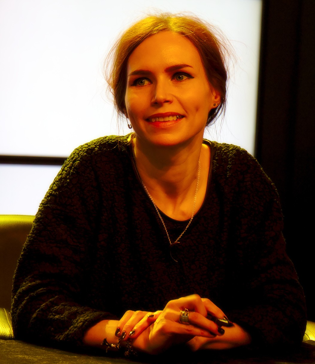 Nina Persson in Hamburg